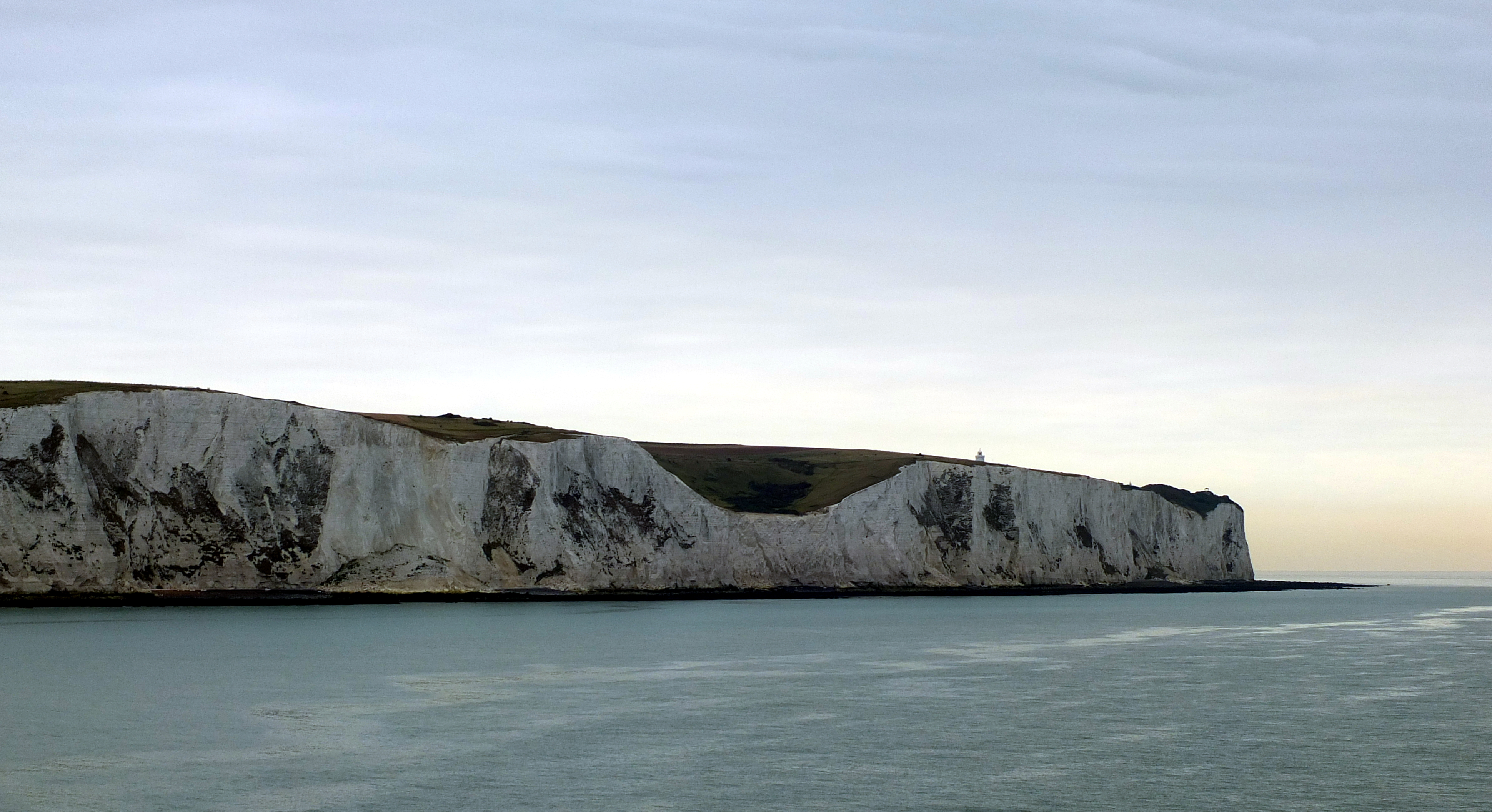 The White Cliffs of Dover at the approach of the Port of Dover.